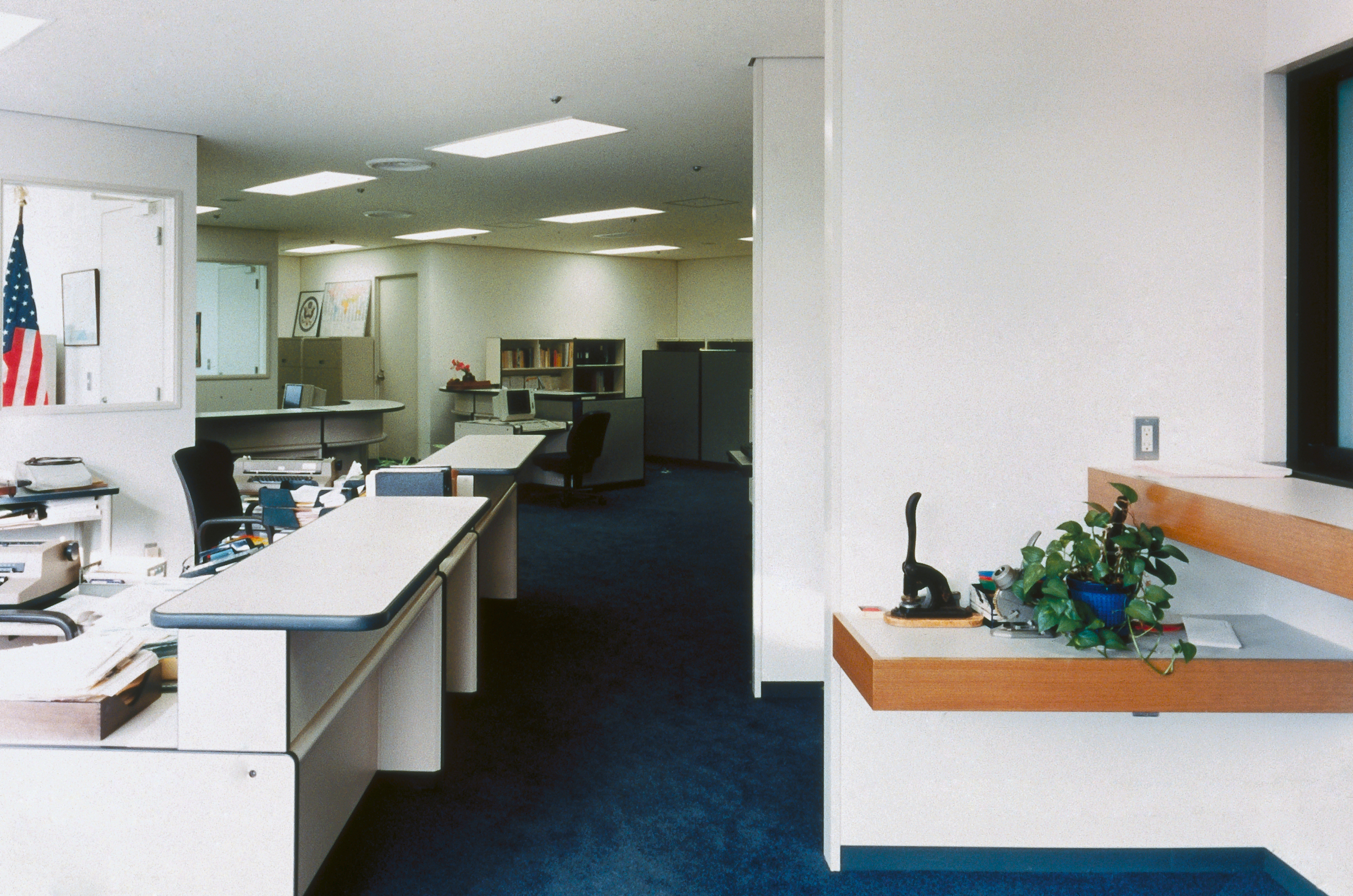 The original finding aid described this item as: Format: Slide Architect: Entrepreneur, 1987 Property Number: X 20033